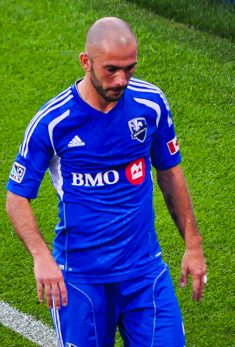 Marco Di Vaio of Montreal.